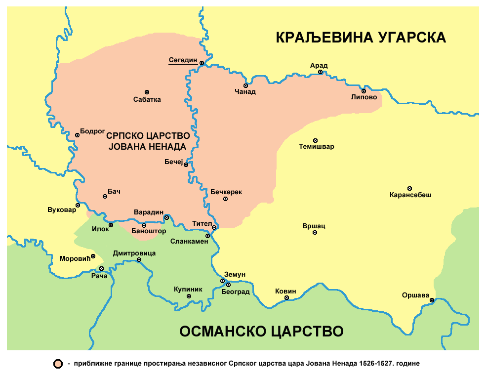 historical map showing Serb Empire of Jovan Nenad in 1526-1527, Serbian language version.